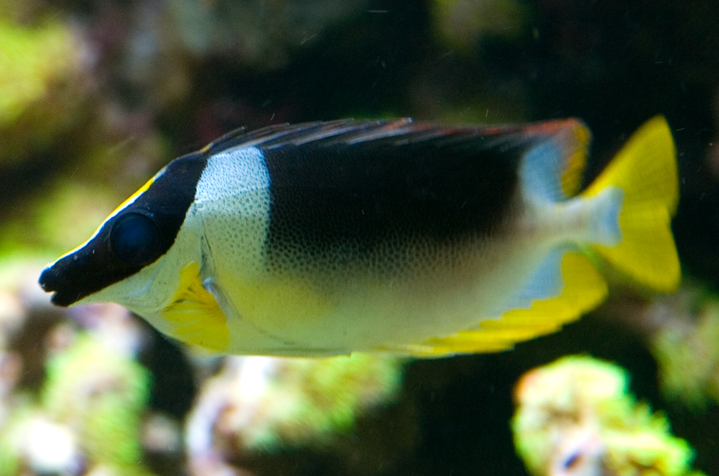 Magnificent rabbitfish (Siganus magnificus)